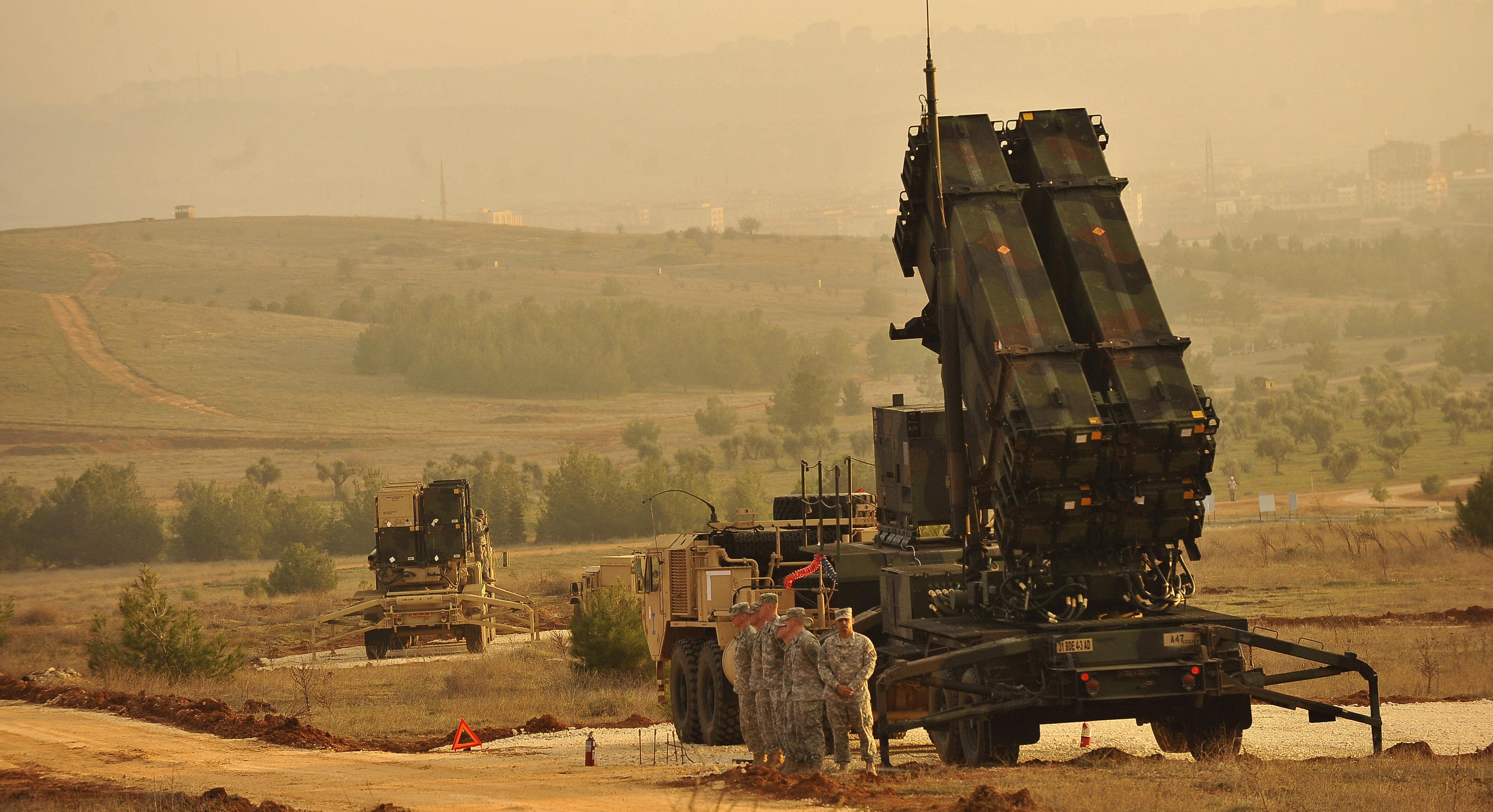 U.S. Service members stand by a Patriot missile battery in Gaziantep, Turkey, Feb. 4, 2013, during a visit from U.S. Deputy Secretary of Defense Ashton B. Carter, not shown. U.S. and NATO Patriot missile batteries and personnel deployed to Turkey in support of NATO's commitment to defending Turkey's security during a period of regional instability.